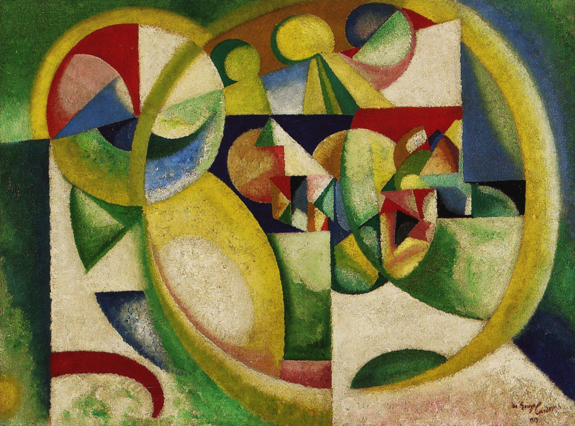 Untitled